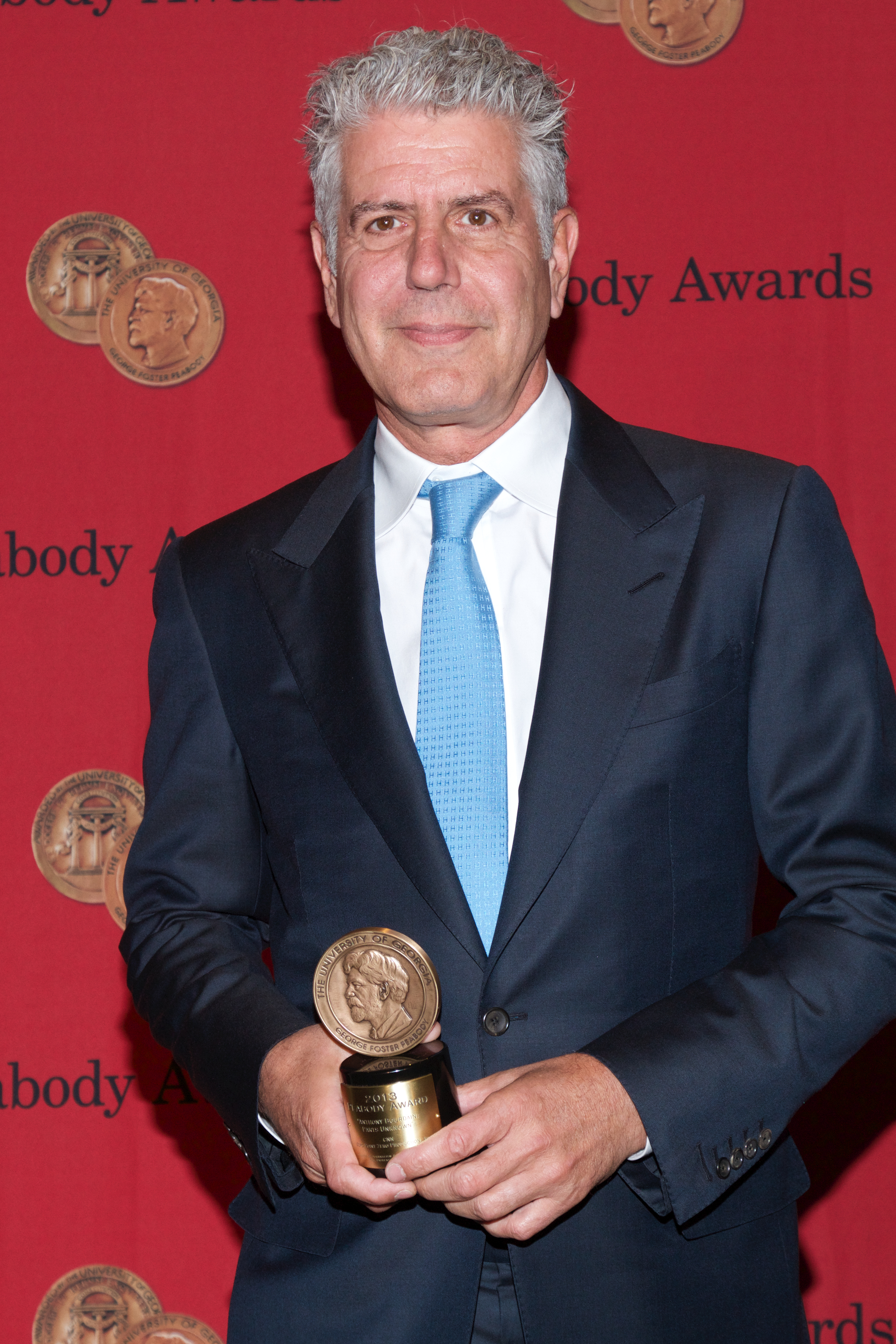 Anthony Bourdain won a Peabody for "Parts Unknown"